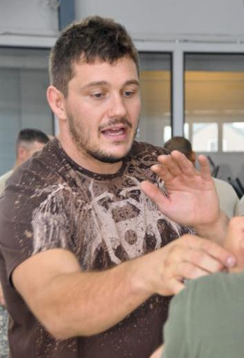 110929-A-GI410-123: Ultimate Fighter Matt “Meathead” Mitrione shows Lance Cpl. Lowell Switzer, Headquarters, 6th Marine Regiment, Camp Lejeune, N.C., the best way to protect himself while throwing a punch during a demonstration at the Post Gym at Camp Atterbury Sept. 20. Mitrione and Former Ultimate Fighter Chris “Lights Out” Lytle visited the installation and provided an instructional seminar to those interested.